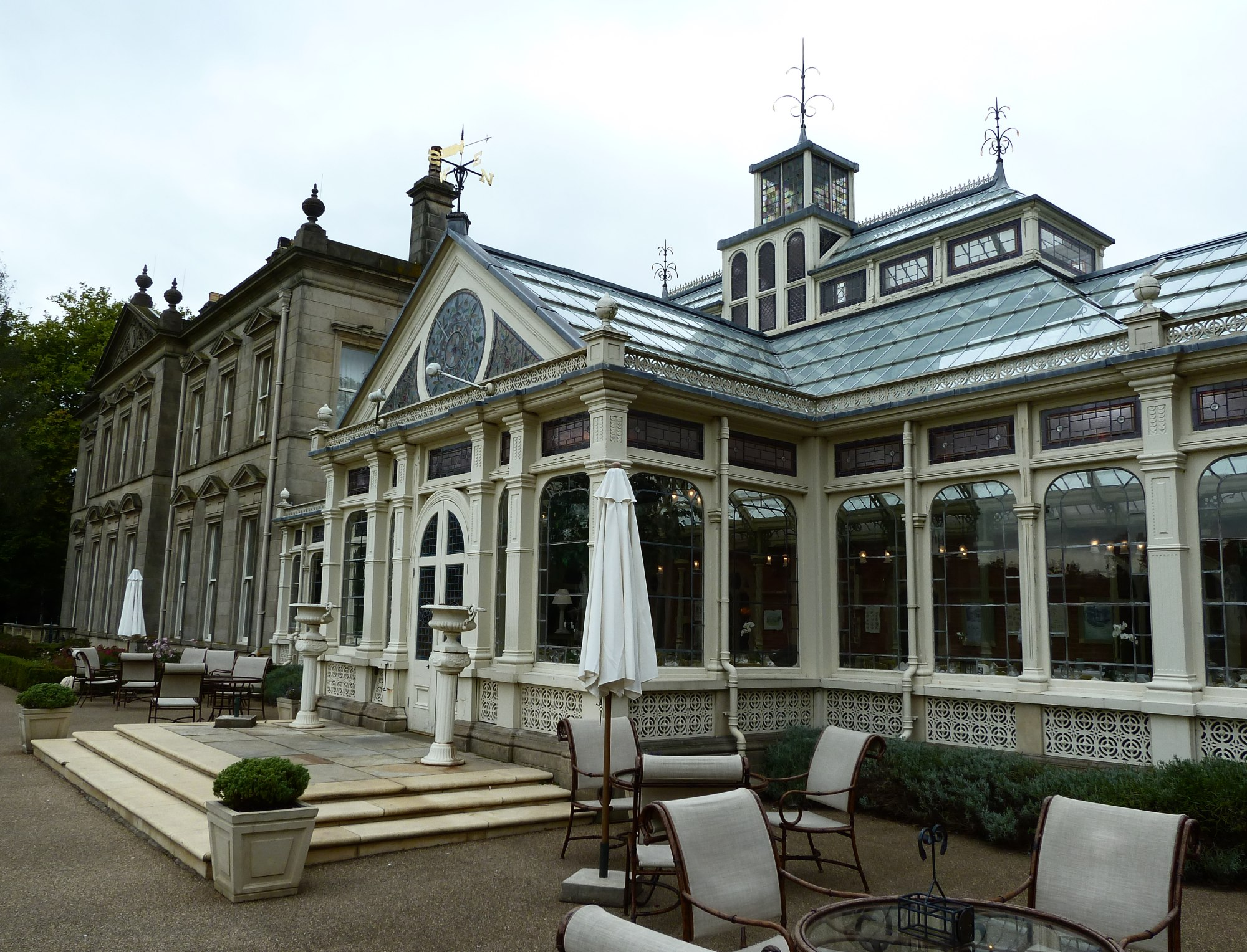 To Kilworth House hotel for a lunch to celebrate a golden wedding. The orangery is almost the same size as the house!